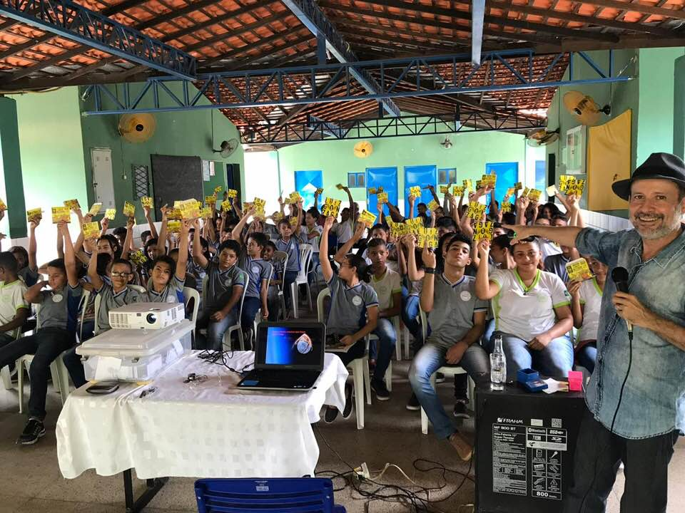 Wilson Seraine é palestrante de renome nacional sobre temas relacionados à cultura nordestina